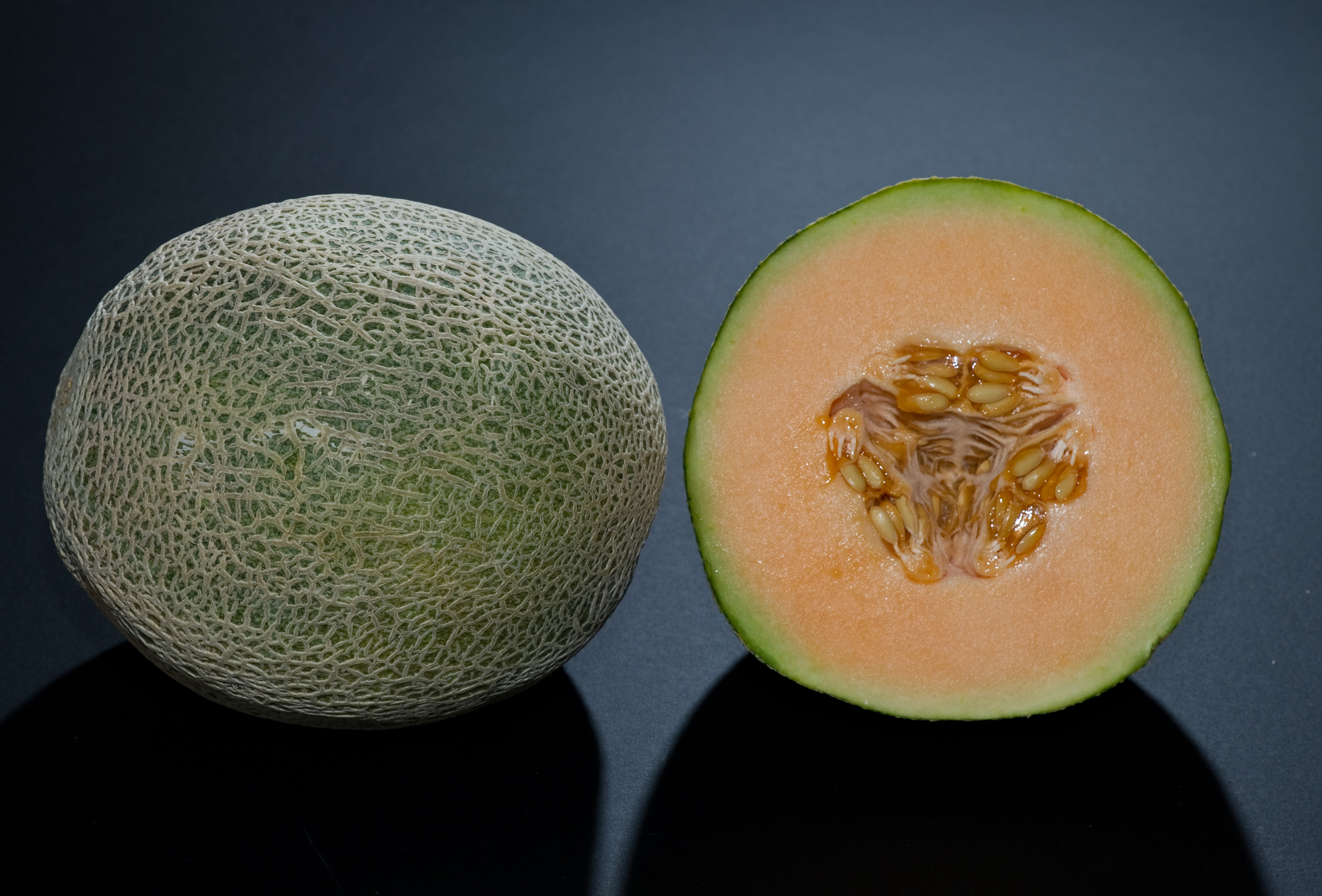 A cantaloupe melon whole and cut. Picture by Bill Ebbesen